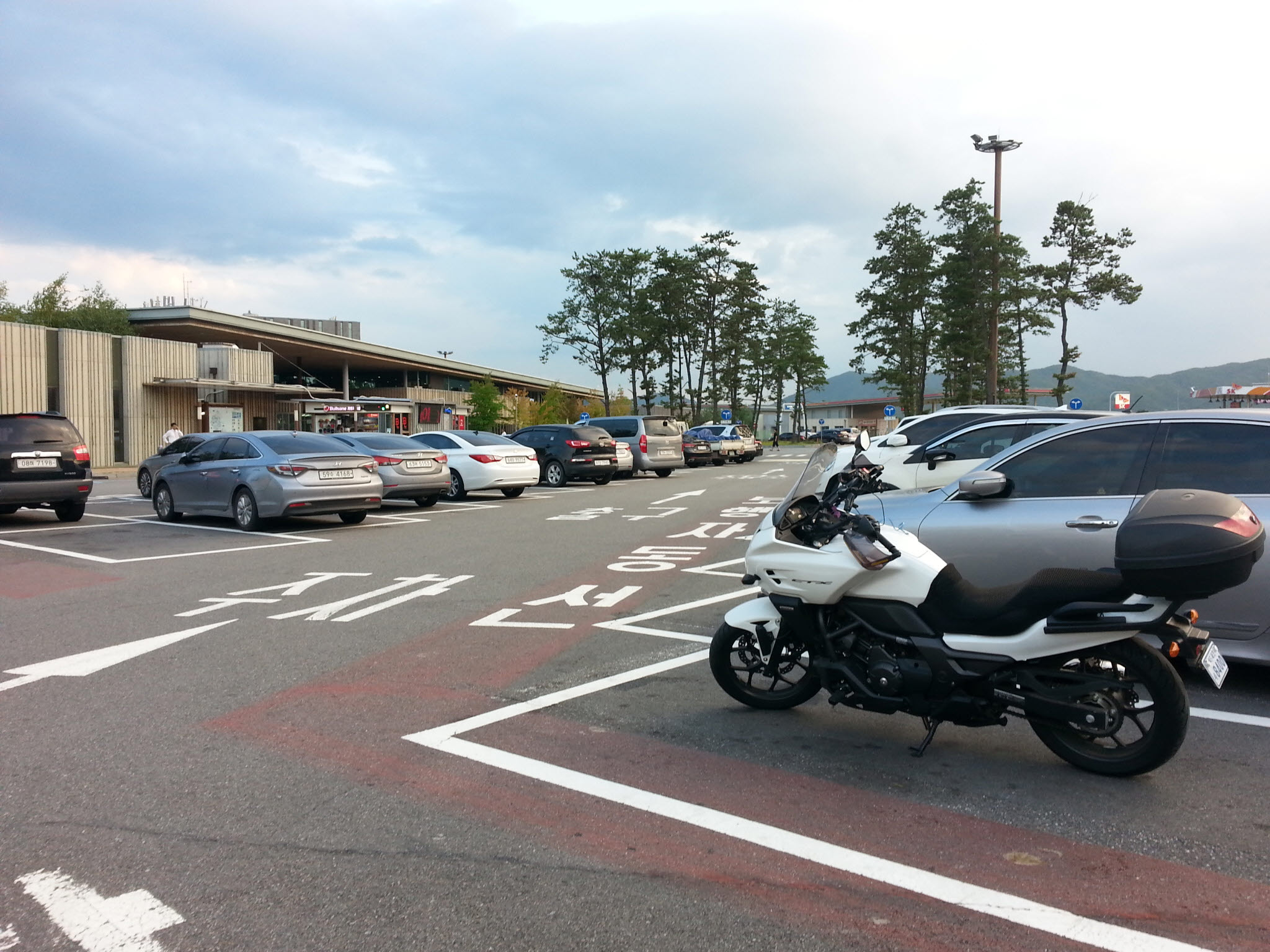 Yeongdong Expressway Deokpyeongjayeon Service Area (To Gangneung)